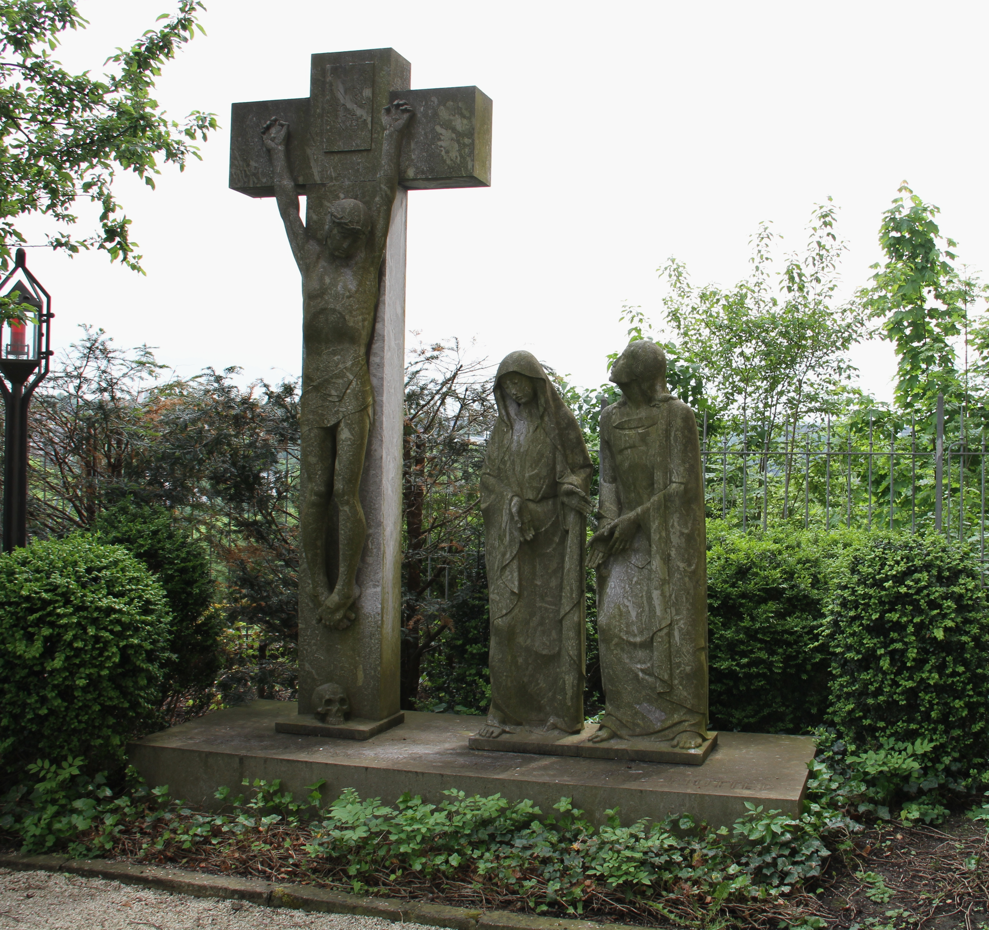 Grablege der Domherren on the former cemetary next to the Limburg Cathedral